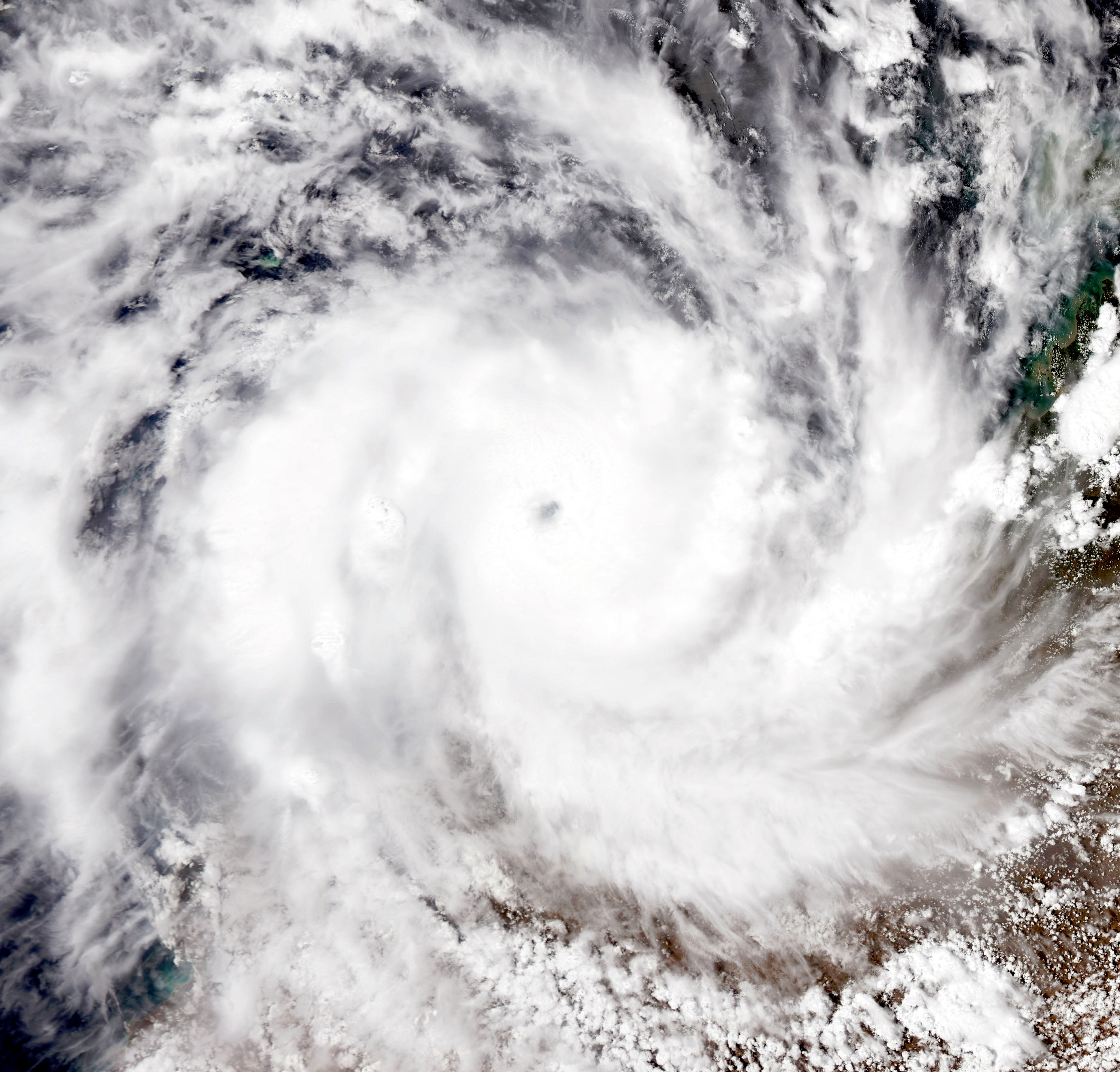 Merged MODIS Aqua images of Australia1 and Australia2 subsets showing Severe Tropical Cyclone Laurence off the Kimberley coast in Western Australia.